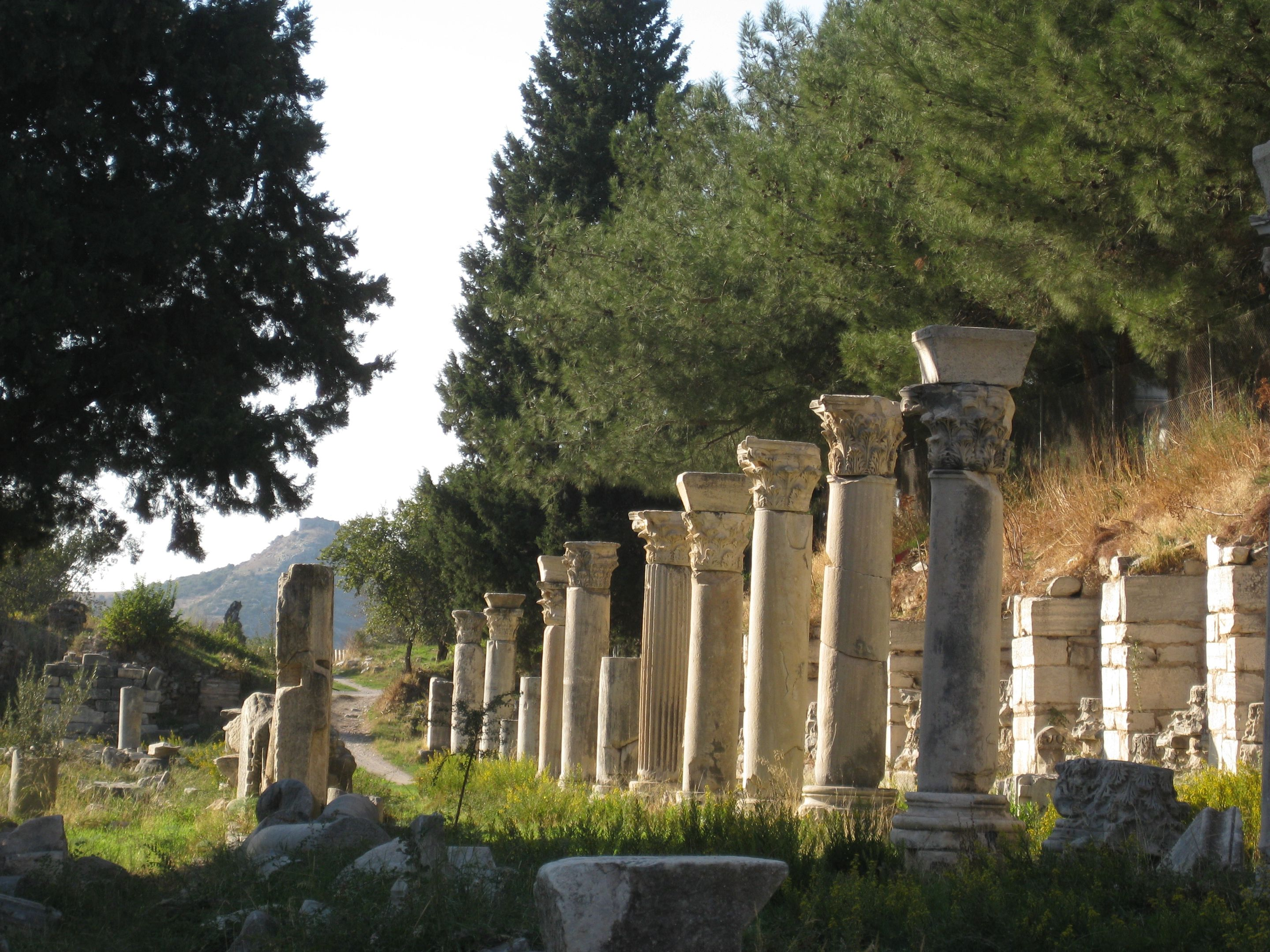 Colonnade in Ephesus; The commercial Agora